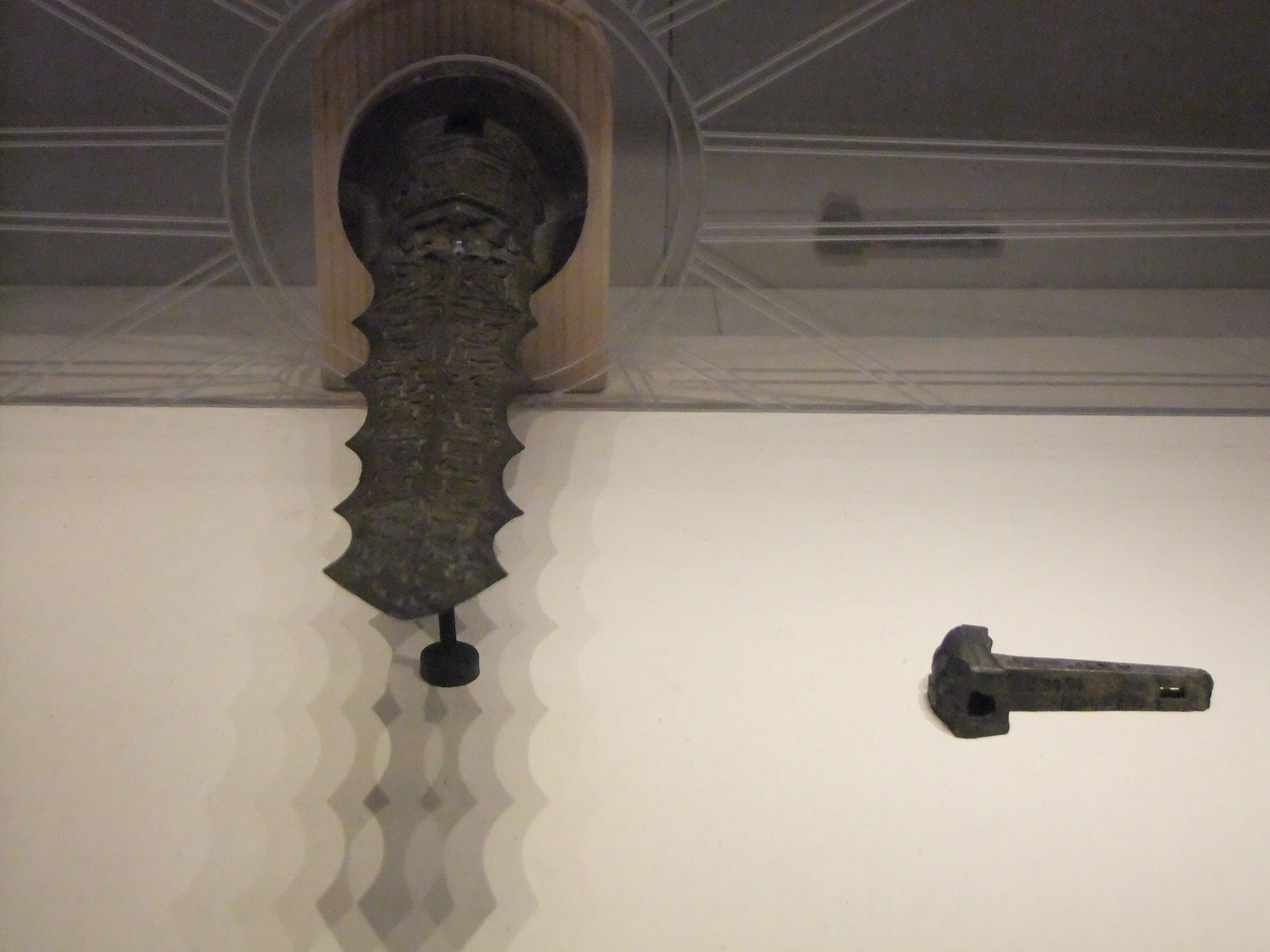 Chariot axle, Warring States (475-221 BC). It is preserved in the Hubei Museum. It was excavated in 1978 from central China's Hubei province.